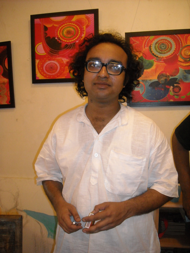 Satyaki is a highly eclectic musician who has a natural affinity for plucked instruments, both classical and folk. He studied the sarod with the late Pandit Dipak Chowdhury and now trains under Pandit Tejendra Narayan Majumdar. He picked up the dotara in the company of practising folk musicians, in akhras and melas and in him the classical and folk meld to evolve into a unique style of playing. He is also a self-taught oud and rabab player, besides being a magnificent singer of mostly Bengali mystical poetry, in the baul and kirtan traditions. Satyaki is a freelance musician who also works with theatre groups, including with the renowned actor, Gautam Haldar.